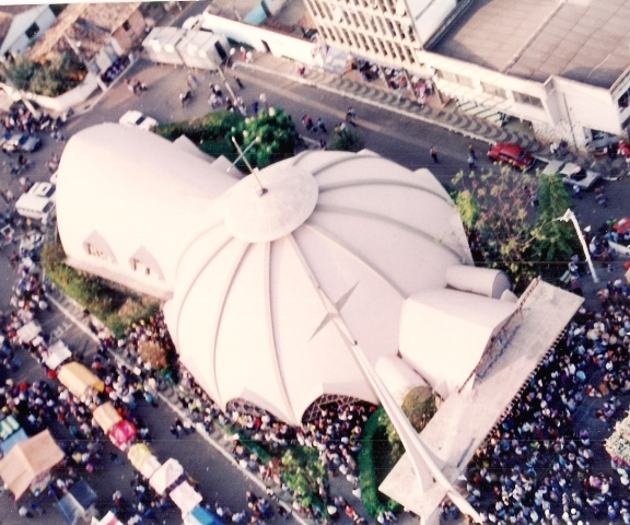 Digitalizar0003inss.jpg